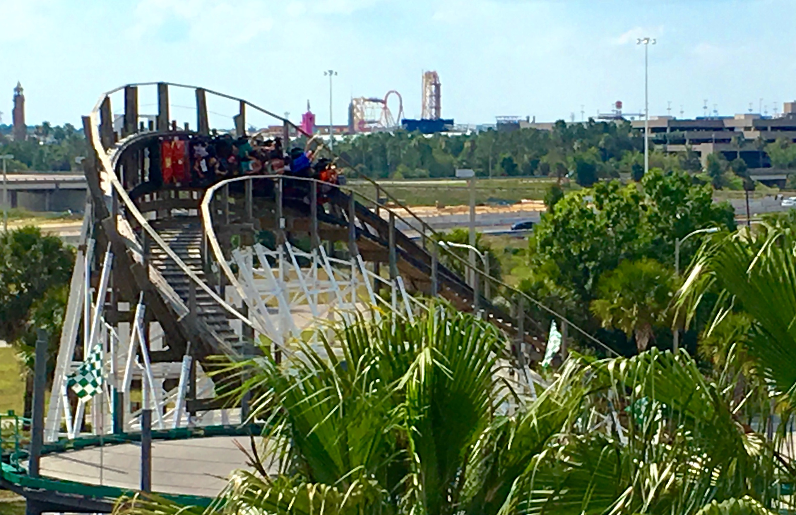 Fun Spot America Orlando's White Lightning Roller Coaster's 90 Degree Bank